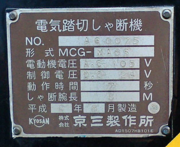 Nameplate of level crossing electronic swing unit on railway